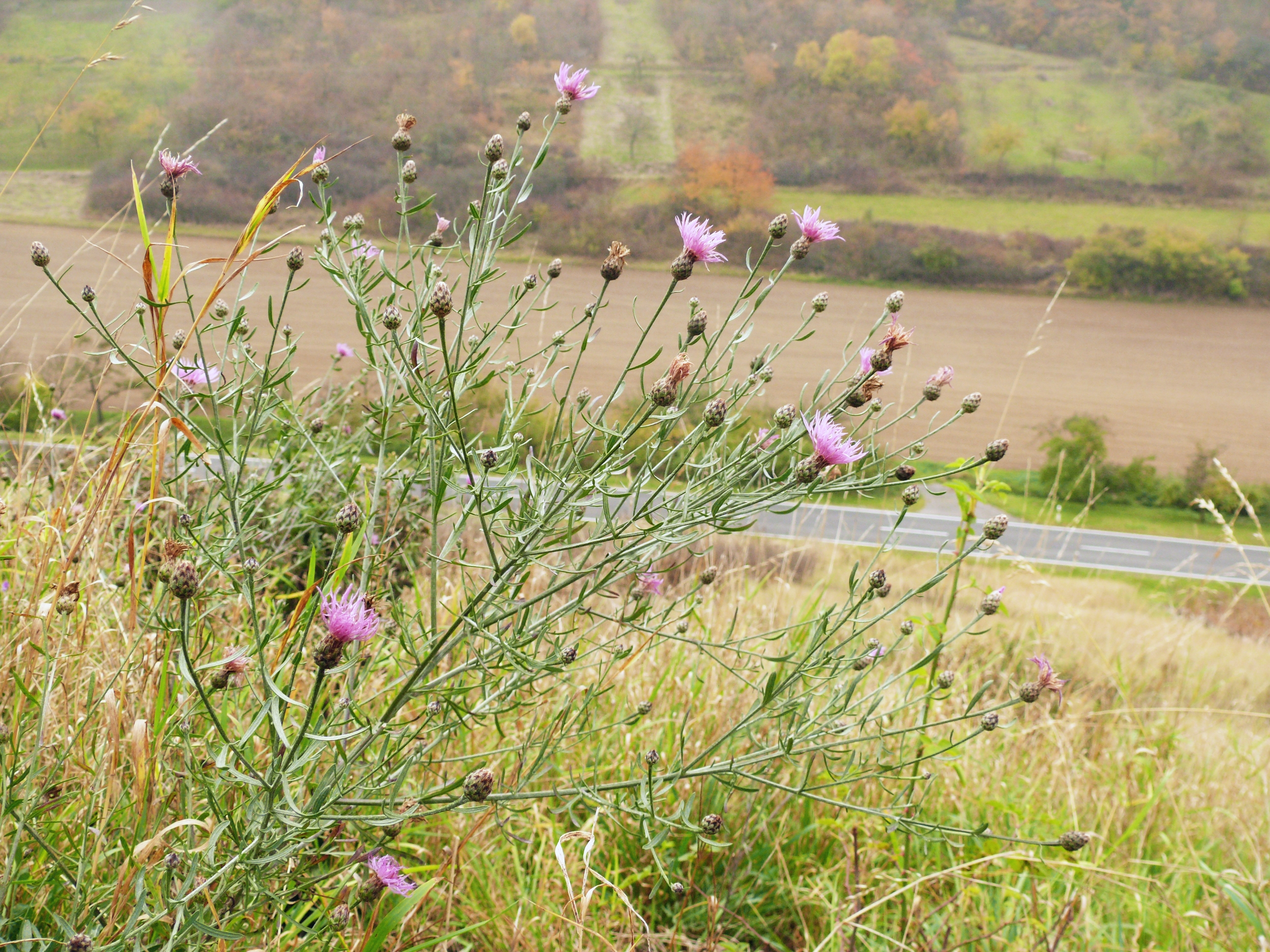 Centaurea stoebe, Tauberland, Germany